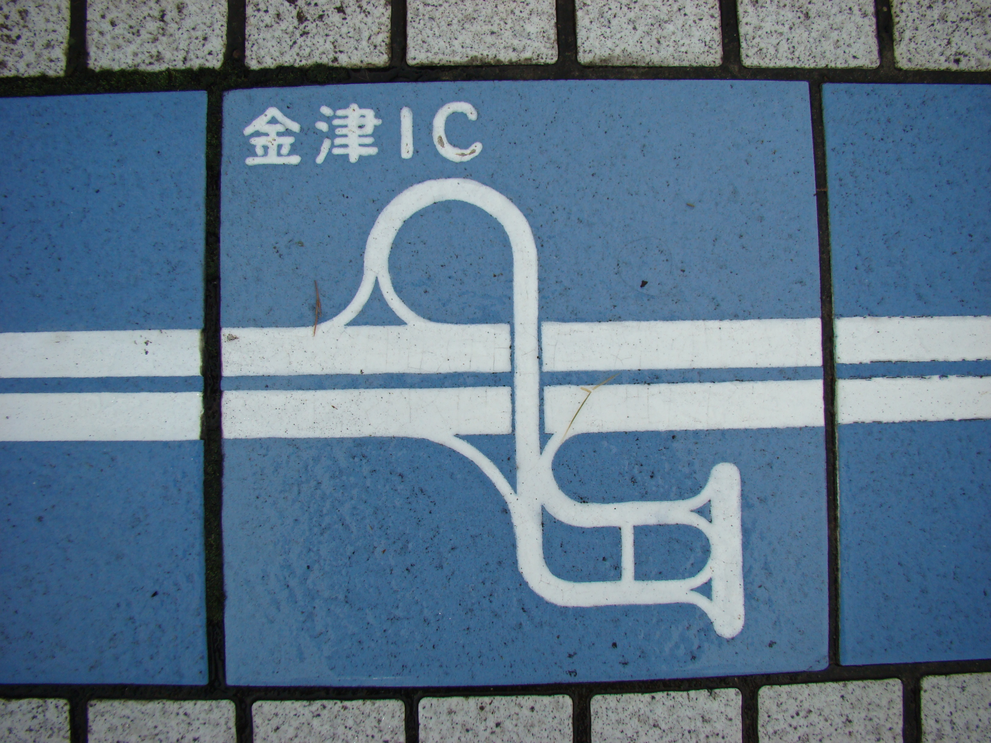 The tile which designed a shape of the Kanazu Interchange（Hokuriku Expressway）（There is this tile in Hokuriku Expressway Nadachi-Tanihama Service Area.）. Place - Chayagahara,Joetsu City,Niigata Prefecture,Japan Date - August 9, 2009 Format - JPEG, 3264x2448pixel, 24bit colors. Photographer - NALA Wiki (talk)